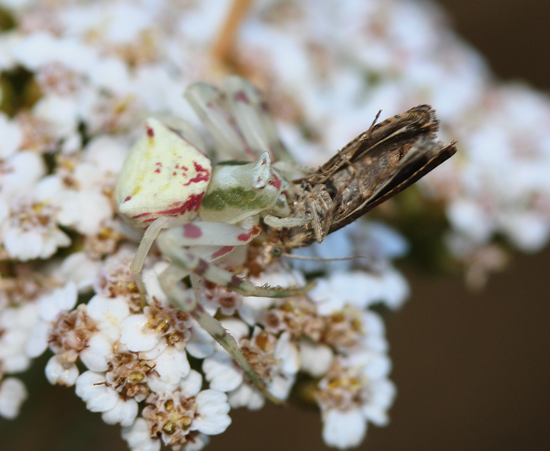 Crab spider (Thomisidae) with a prey